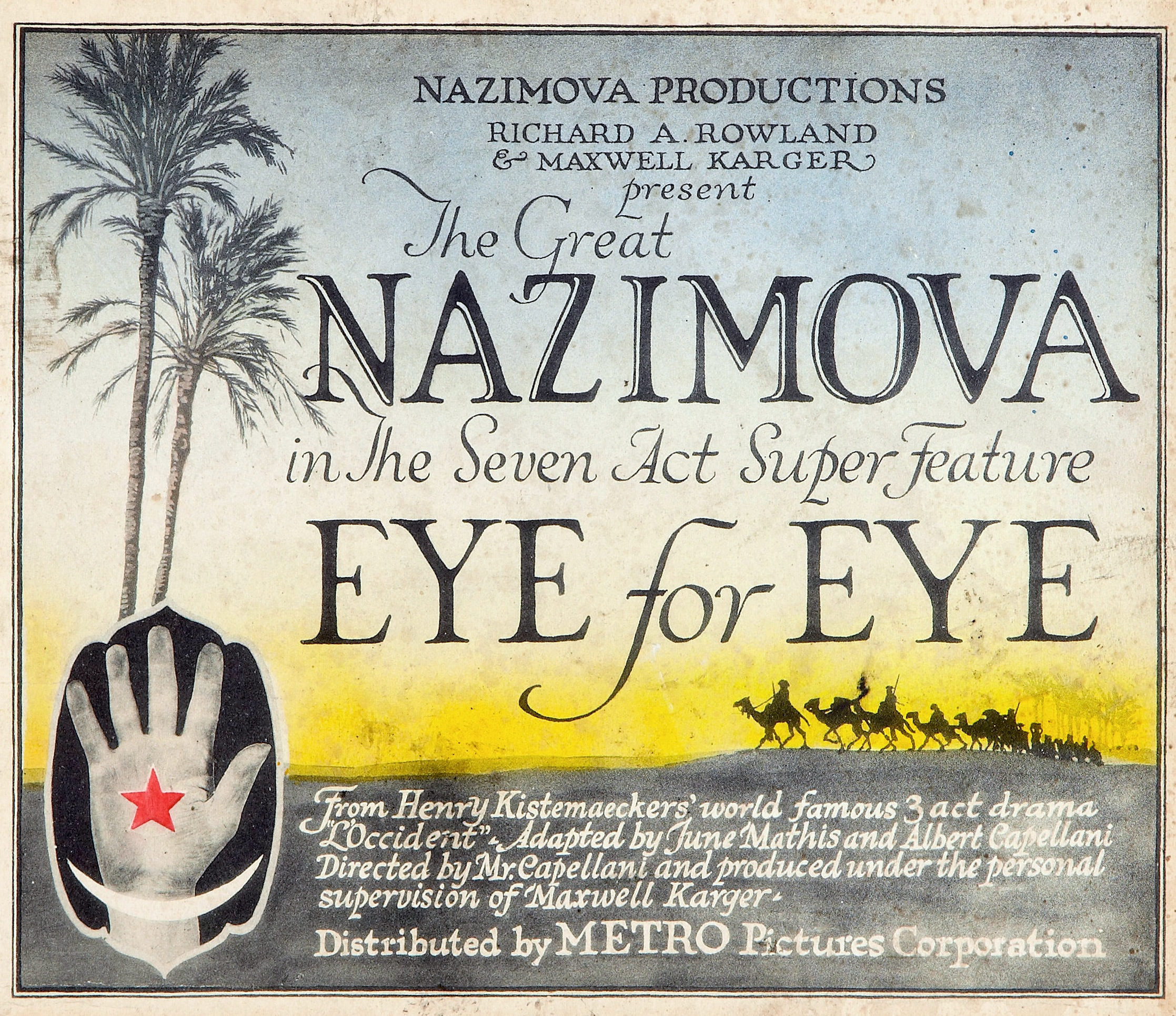 Eye for Eye is 1918 silent film directed by Albert Capellani. This is a lobby card for the film.